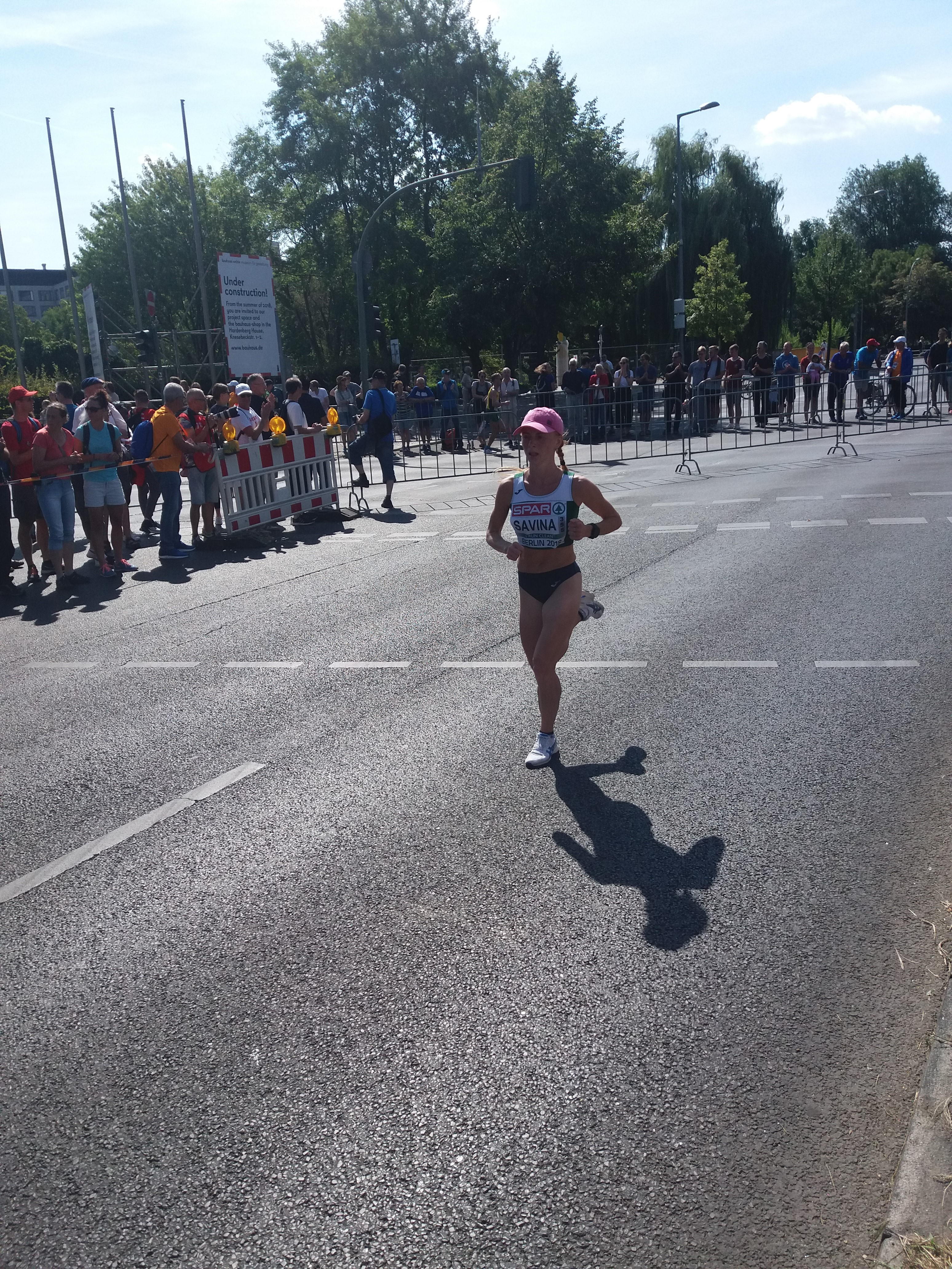 Marathon at the 2018 European Athletics Championships – Nina Savina